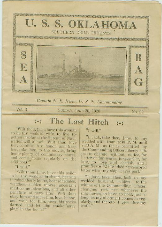 Front page of the "Sea Bag" newsletter of the U.S.S. Oklahoma battleship; June 20, 1920; store Web page states: "A vintage, origional news bulletin dated June 20, 1920. It is from the USS Oklahoma, Vol.3 No.22. It folds open to 4 pages. It is in origional, as found, uncleaned or touched condition and has wear and folds. 5 1/4 x 7 1/2" closed up.. Scan is accurate."